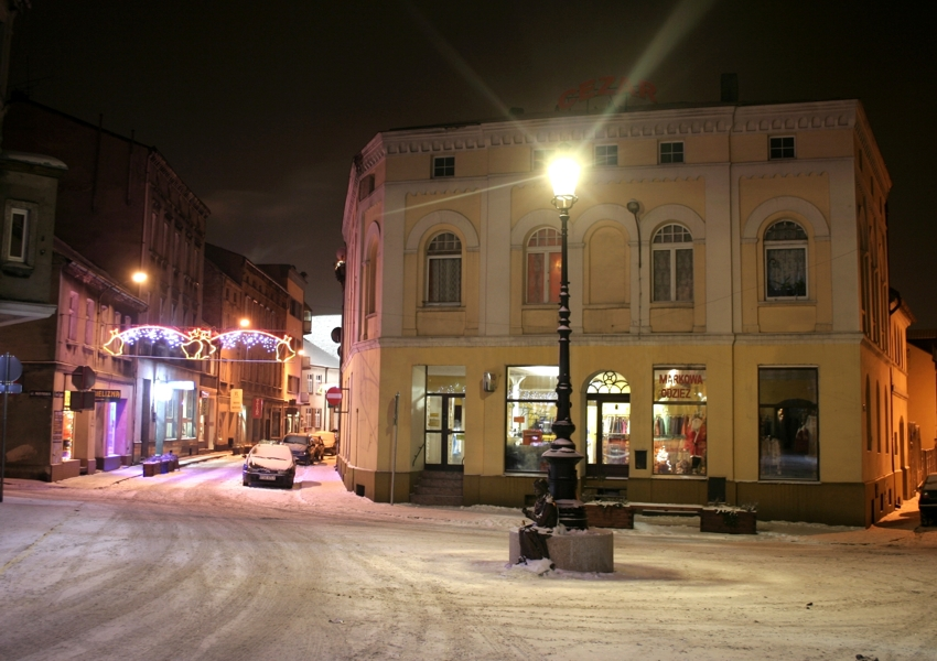 The so-called "Pumpenplatz" (Pump Square) in Śrem, Poland. In the center, there is a reconstructed old gas lantern and the statue of the Little Match Girl, both unveiled in 2009. Photograph taken by Szymon Majewski from the Śrem Museum.